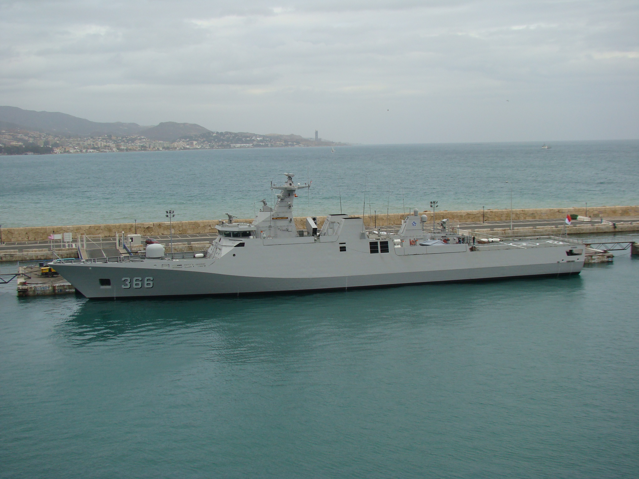 Indonesian Sigma class corvette Hasanuddin in Málaga.